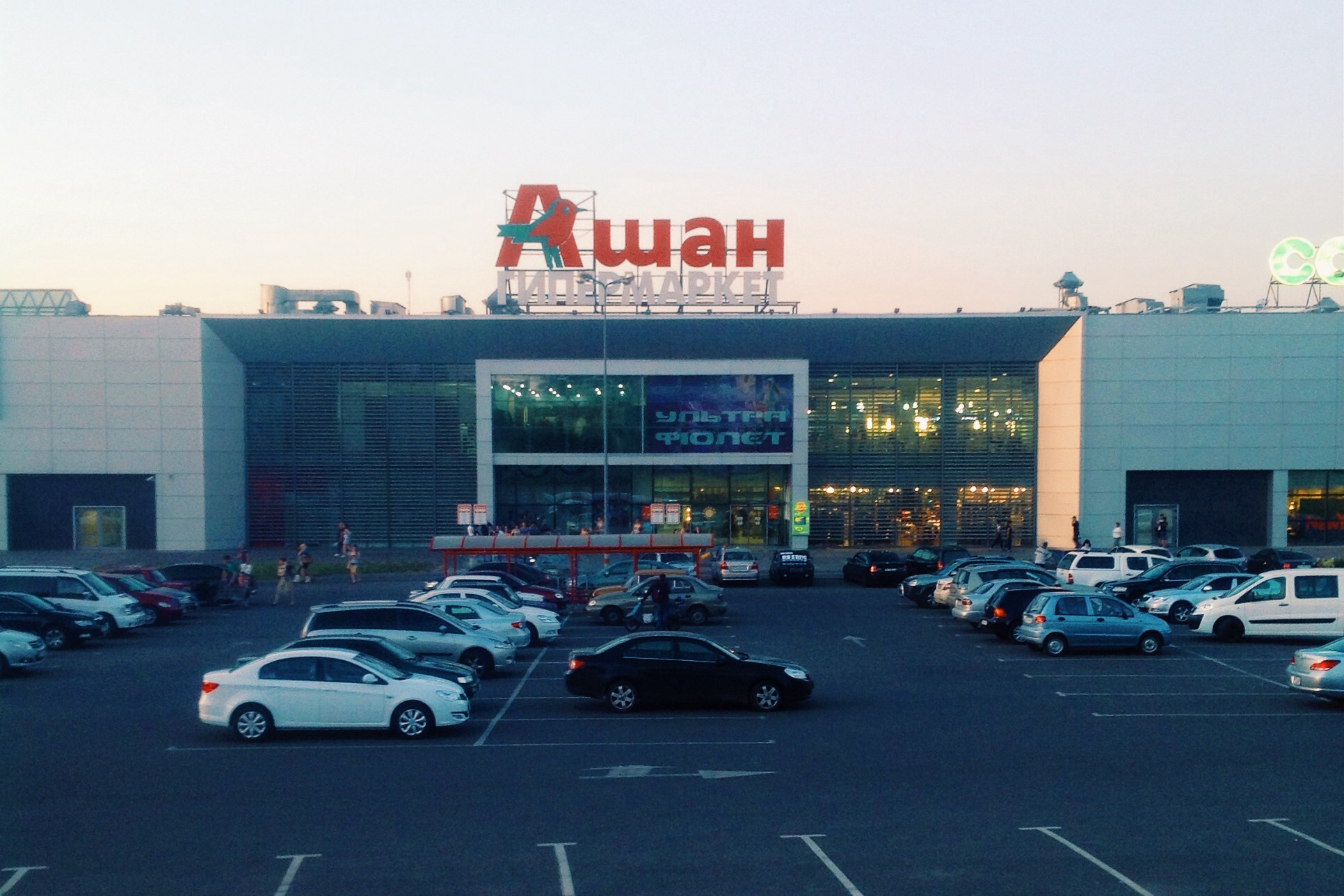 Auchan Ukraine